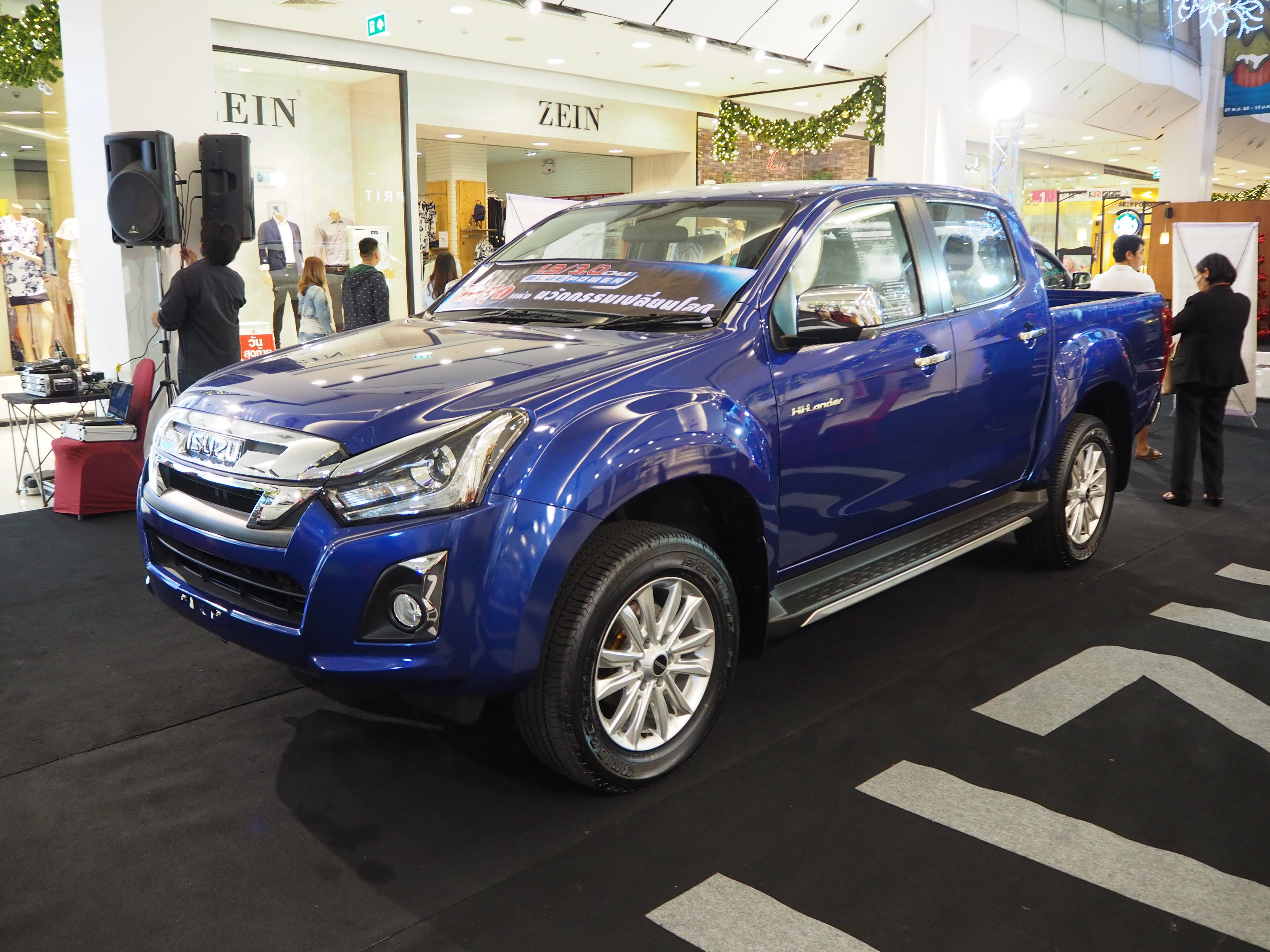 2017 Isuzu D-Max Hi-Lander 1.9 Ddi Z-Prestige Double-Cab in Central Plaza Khon Kaen, Khon Kaen, Thailand.